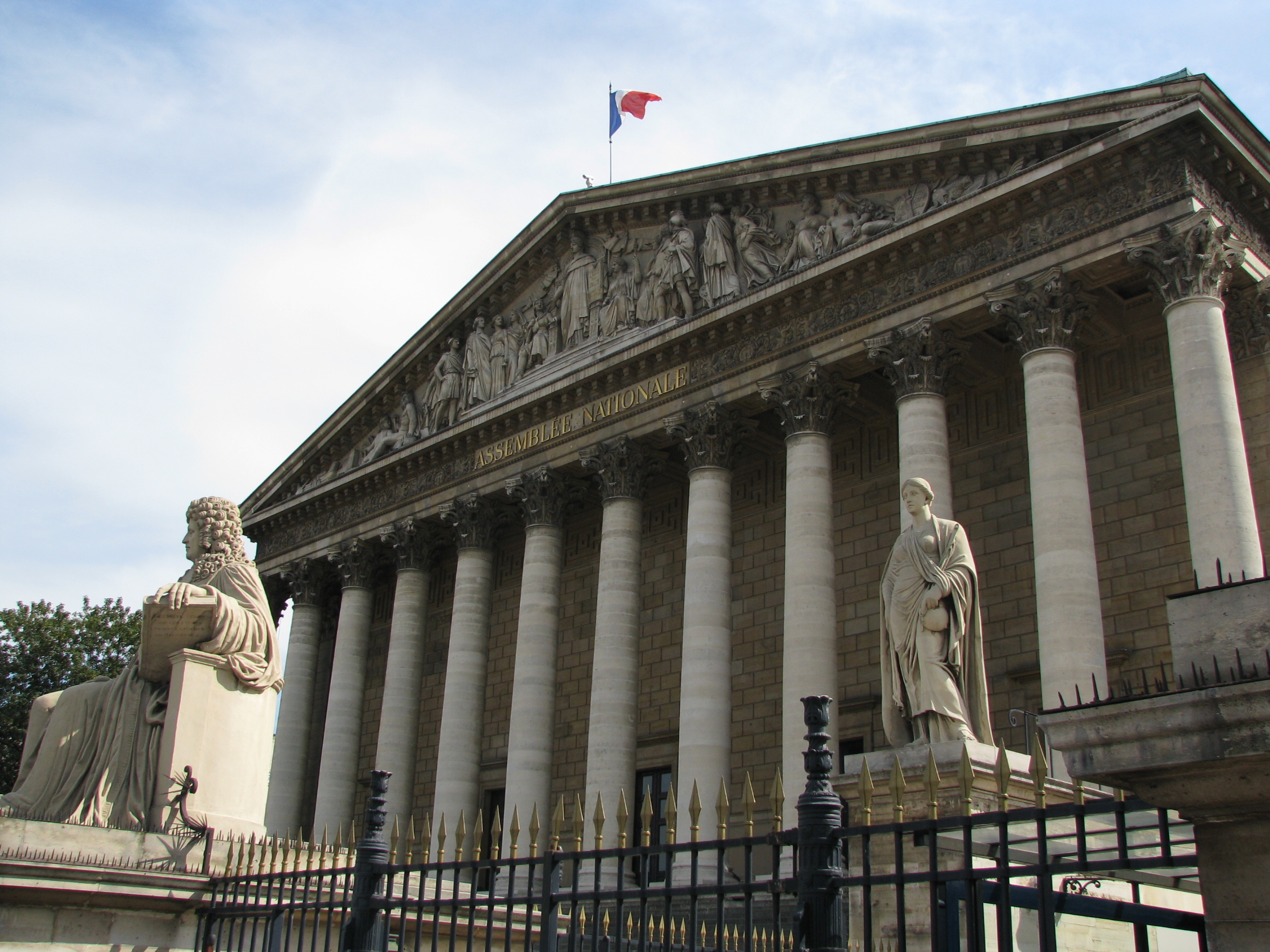 National Assembly of France, Paris